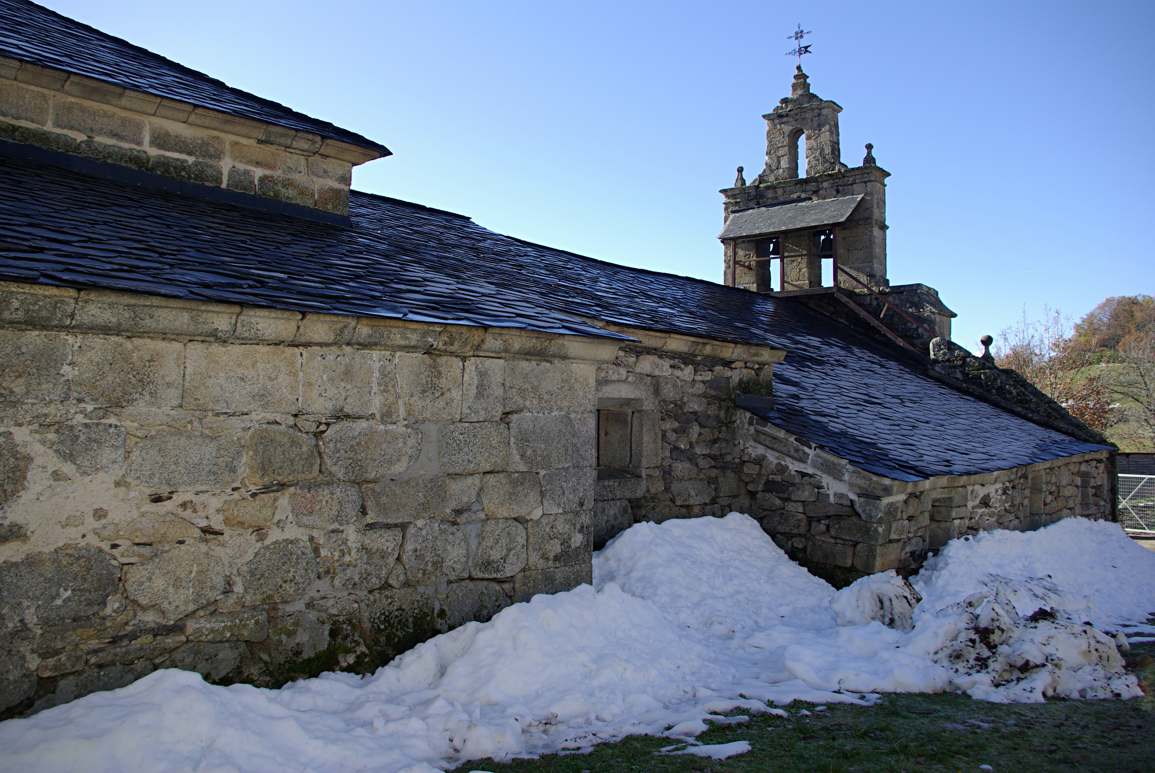 Parish church of Suarbol, Candín (León, Spain)